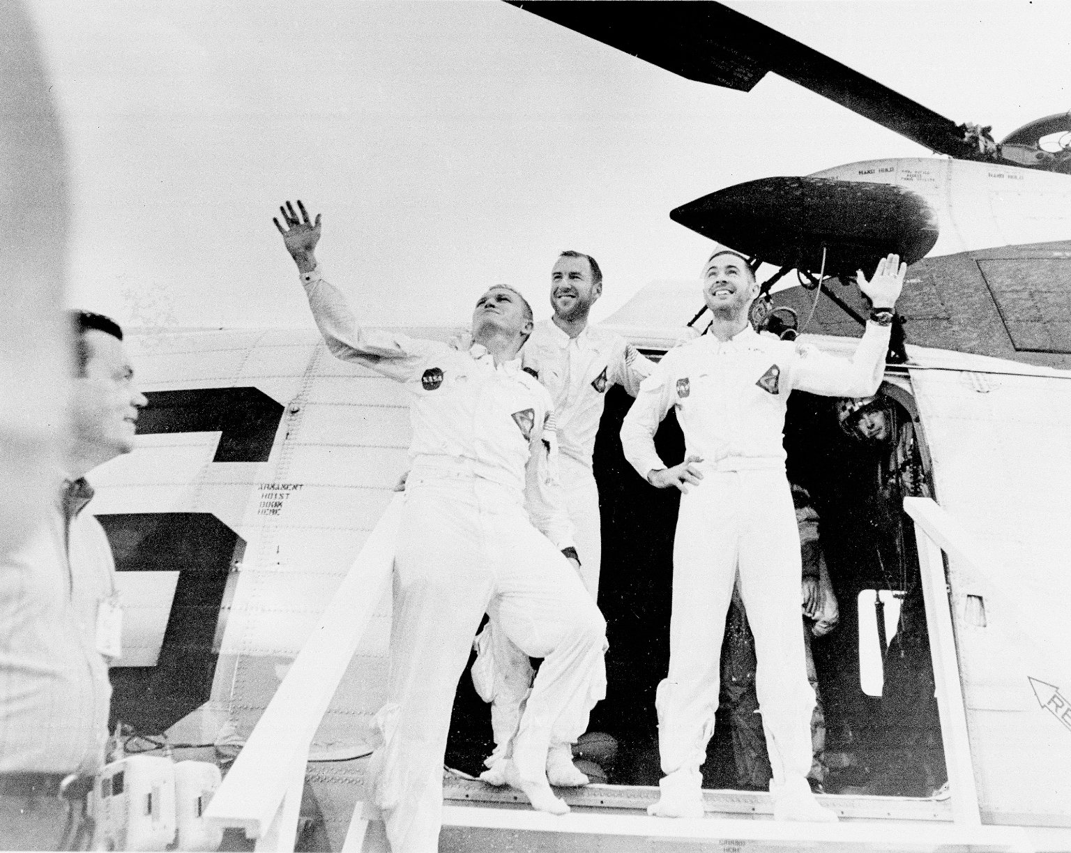 Full Description: Apollo 8 served as the first manned lunar orbit mission. Liftoff occurred on December 21, 1968, carrying a three man crew consisting of astronauts Frank Borman, commander; William Anders, Lunar Module (LM) Pilot; and James Lovell, Command Module (CM) pilot. The three safely returned to Earth on December 27, 1968. In this photograph, the crew members are waving as they leave the recovery helicopter. The mission achieved operational experience and tested the Apollo command module systems, including communications, tracking, and life-support, in cis-lunar space and lunar orbit, and allowed evaluation of crew performance on a lunar orbiting mission. The crew photographed the lunar surface, both far side and near side, obtaining information on topography and landmarks as well as other scientific information necessary for future Apollo landings. All systems operated within allowable parameters and all objectives of the mission were achieved. UID: SPD-MARSH-6972881